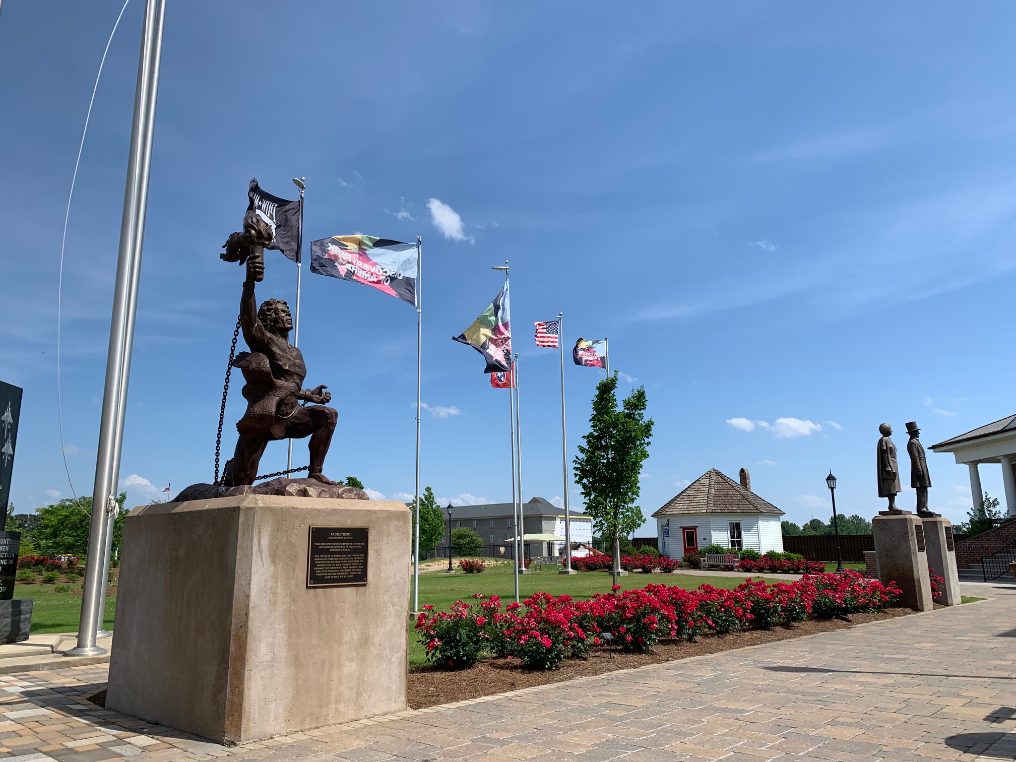 Freedom Square at Discovery Park of America